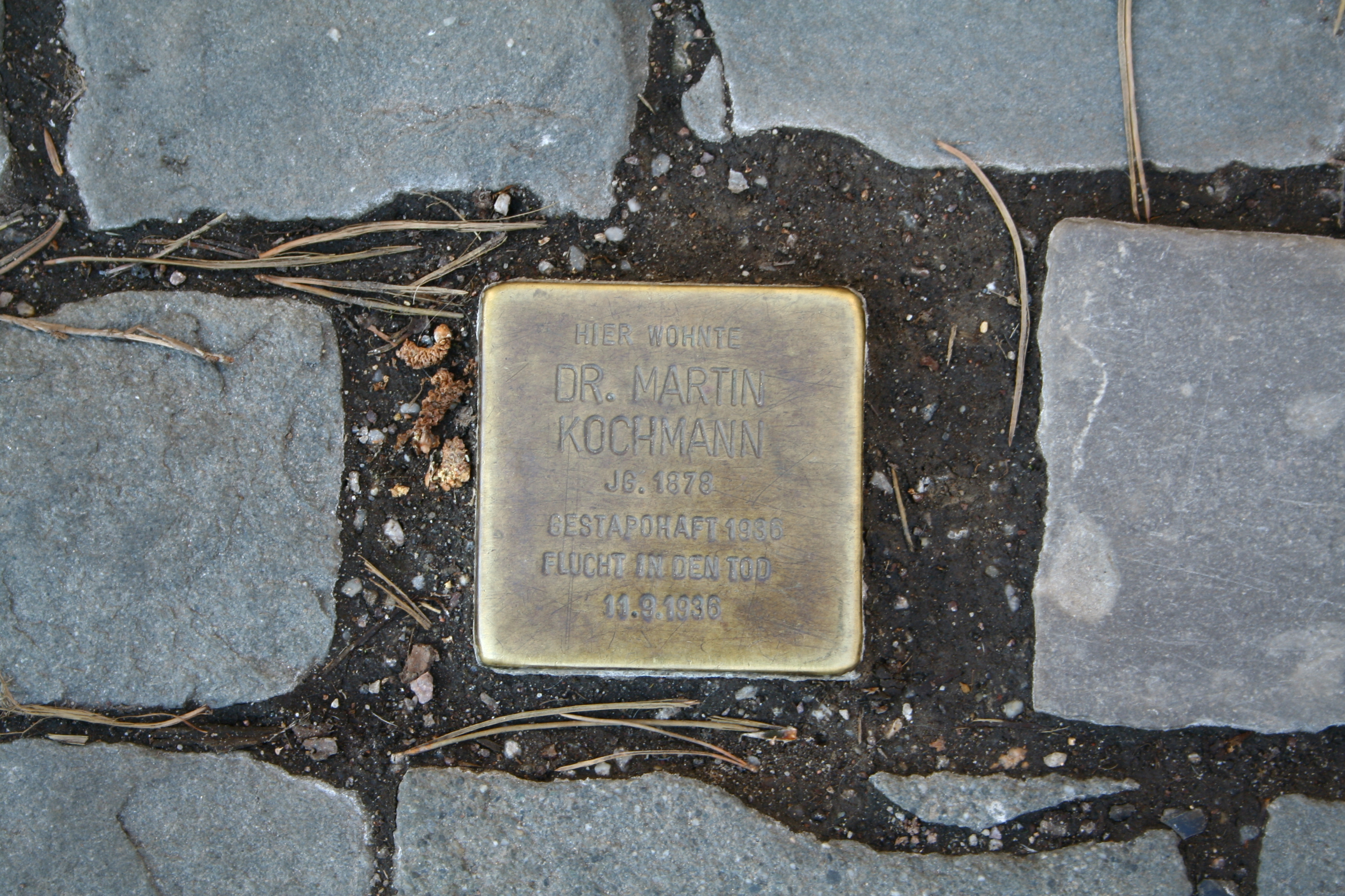 Stolperstein at Halle (Saale) for Prof. Dr. Martin Kochmann, Friedenstraße 12a